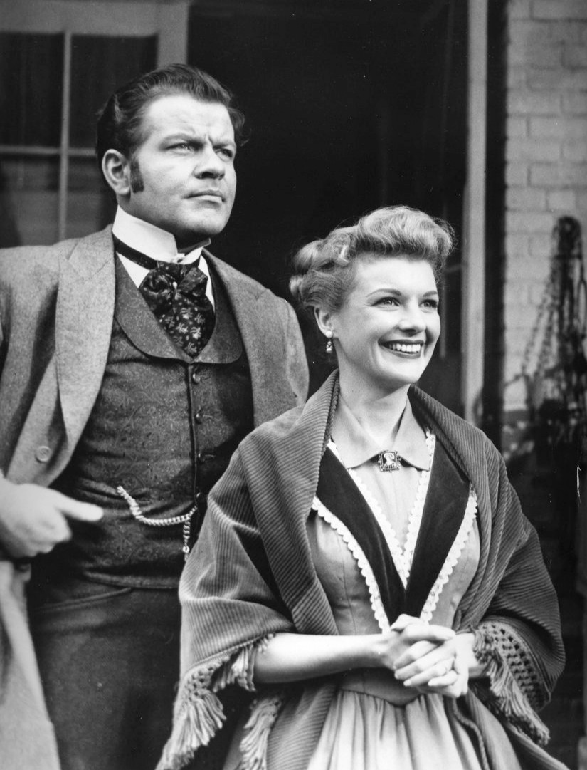 Photo of Sean McClory and Nan Leslie as Jack and Martha McGivern from the television series The Californians.